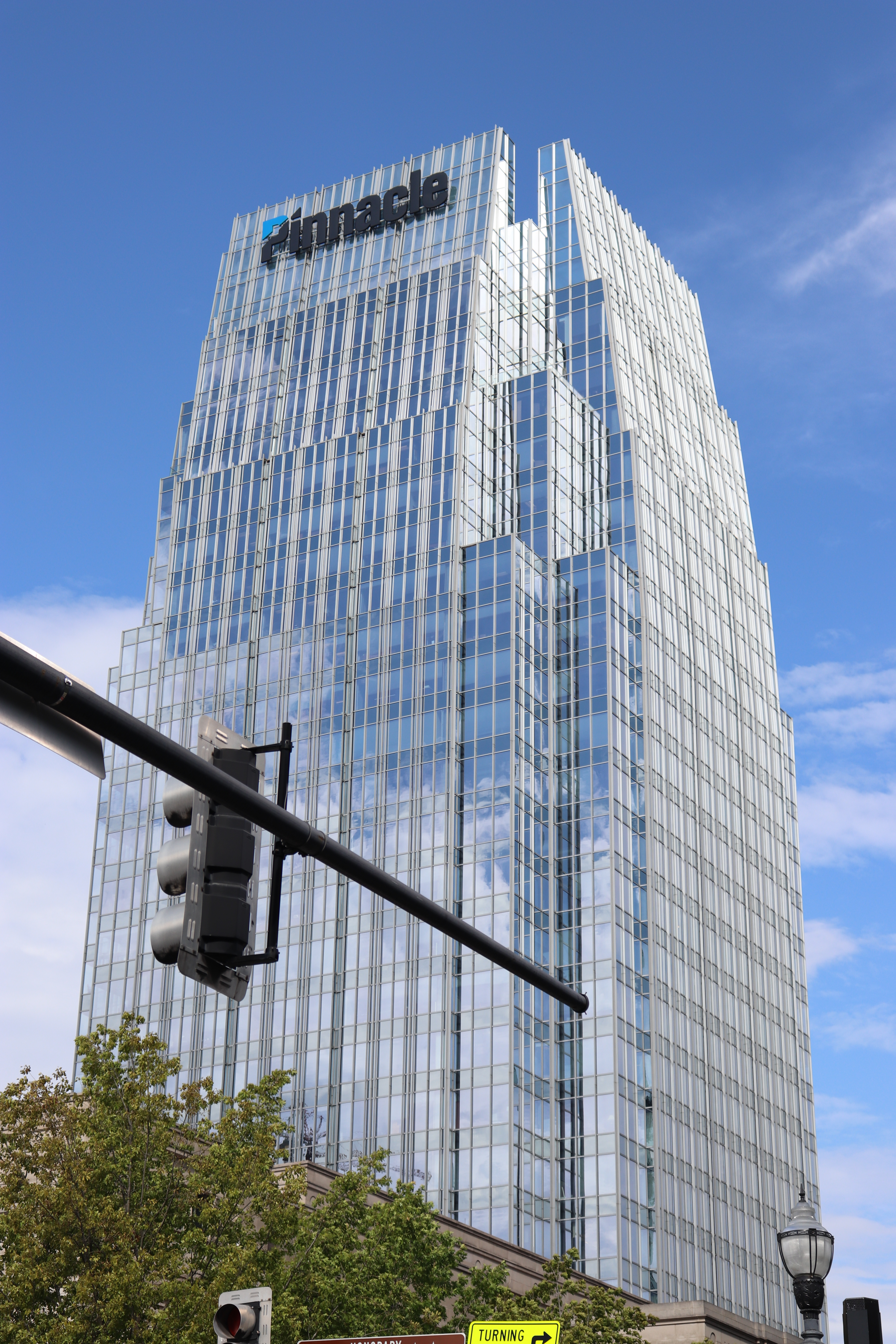 The Pinnacle at Symphony Place in Nashville, Tennessee. Taken on 10-11-2019.